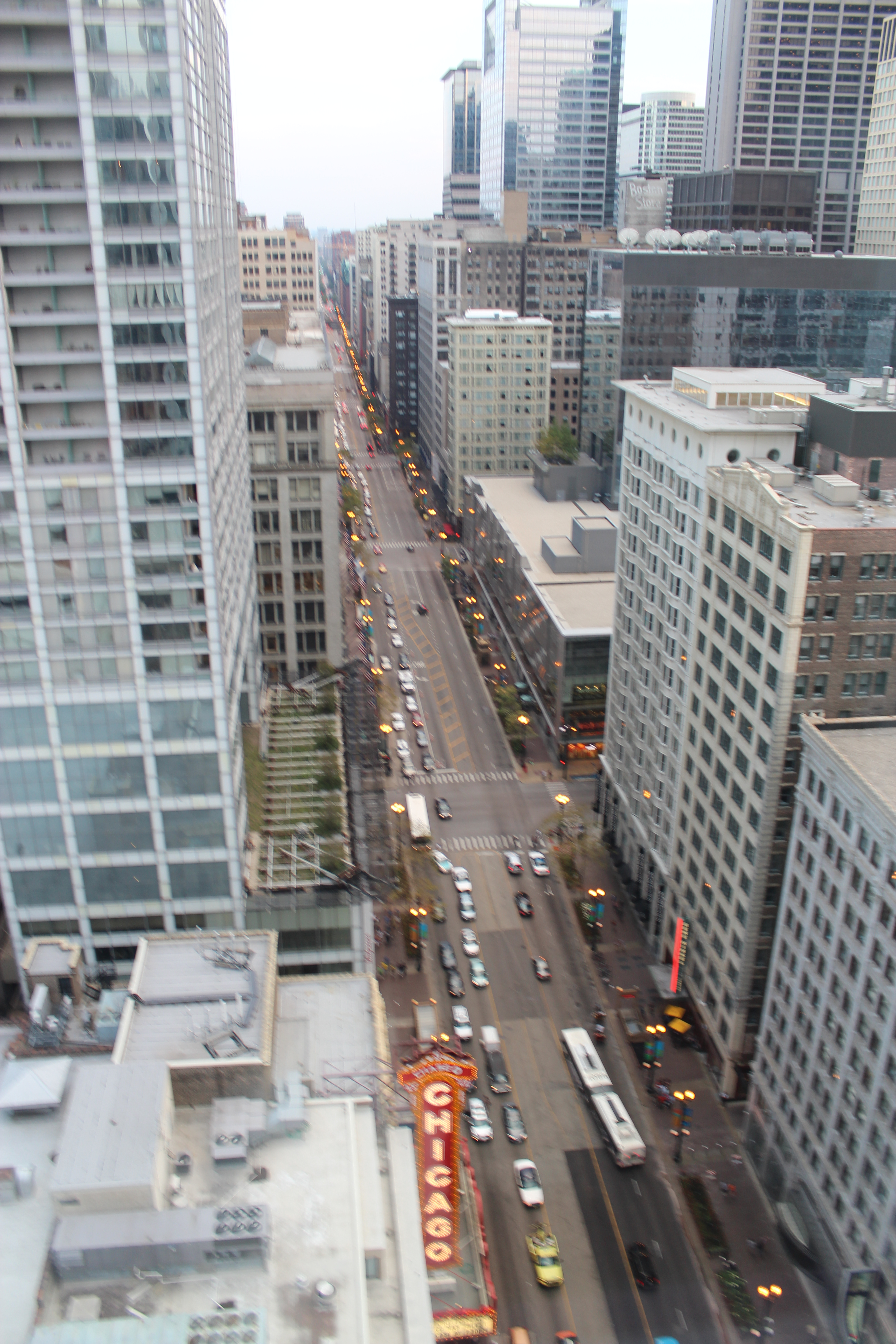 State Street (Chicago) from the rooftop bar of the Wit Hotel